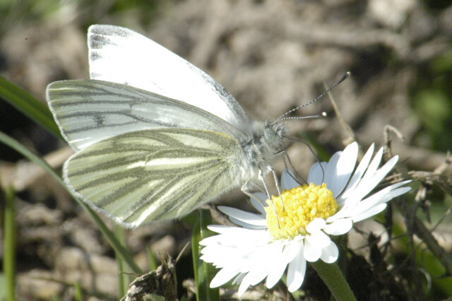 Picture taken in Commanster, Belgian High Ardennes . Species: Pieris napi